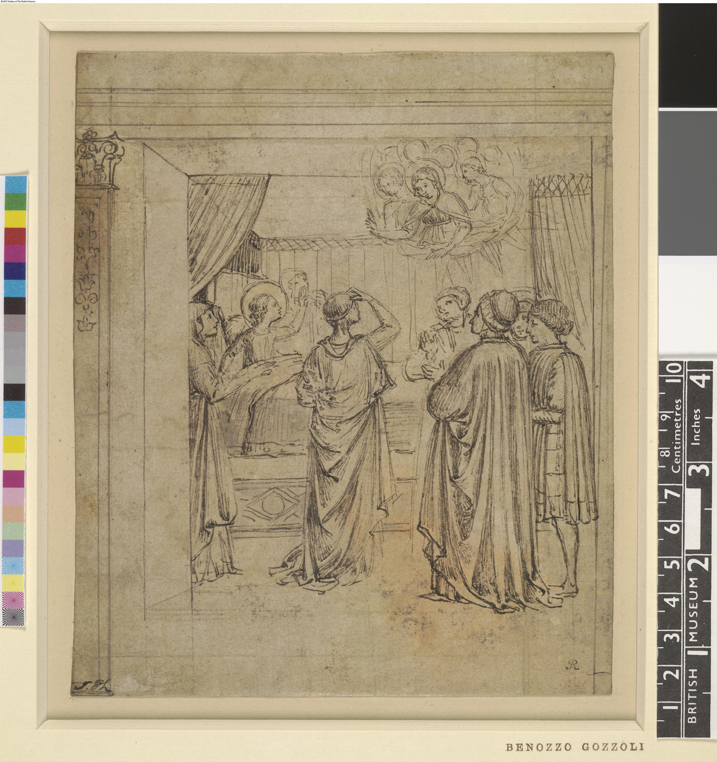 This drawing is half of a studio (the other half is preserved in Dresden) by Benozzo Gozzoli for a series of 10 frescoes for the Poor Clares' church in Viterbo (Italy). It is part of the collections of the British Museum. The frescoes were destroyed in 1632 upon the rebuilding of the church, but nine of them are recorded in commissioned copies in pen and wash by Francesco Sabatini made in the same year and today preserved in the Museo civico, Viterbo. The remaining fresco, previously destroyed to place an organ in the church, is the one that illustrates the studio that has survived, formed by this drawing and the one preserved in Dresden. Description: The Virgin appearing to St Rosa of Viterbo; interior with the saint in bed and a group of figures nearby Pen and brown ink, light brown wash, over some ruled black lines, with traces of a red chalk ground Drawn by: Benozzo Gozzoli School/style: Florentine Production date: 1453 Materials: paper Technique: drawn Dimensions: Height: 178 millimetres Width: 149 millimetres Museum number (British Museum): 1885,0509.38